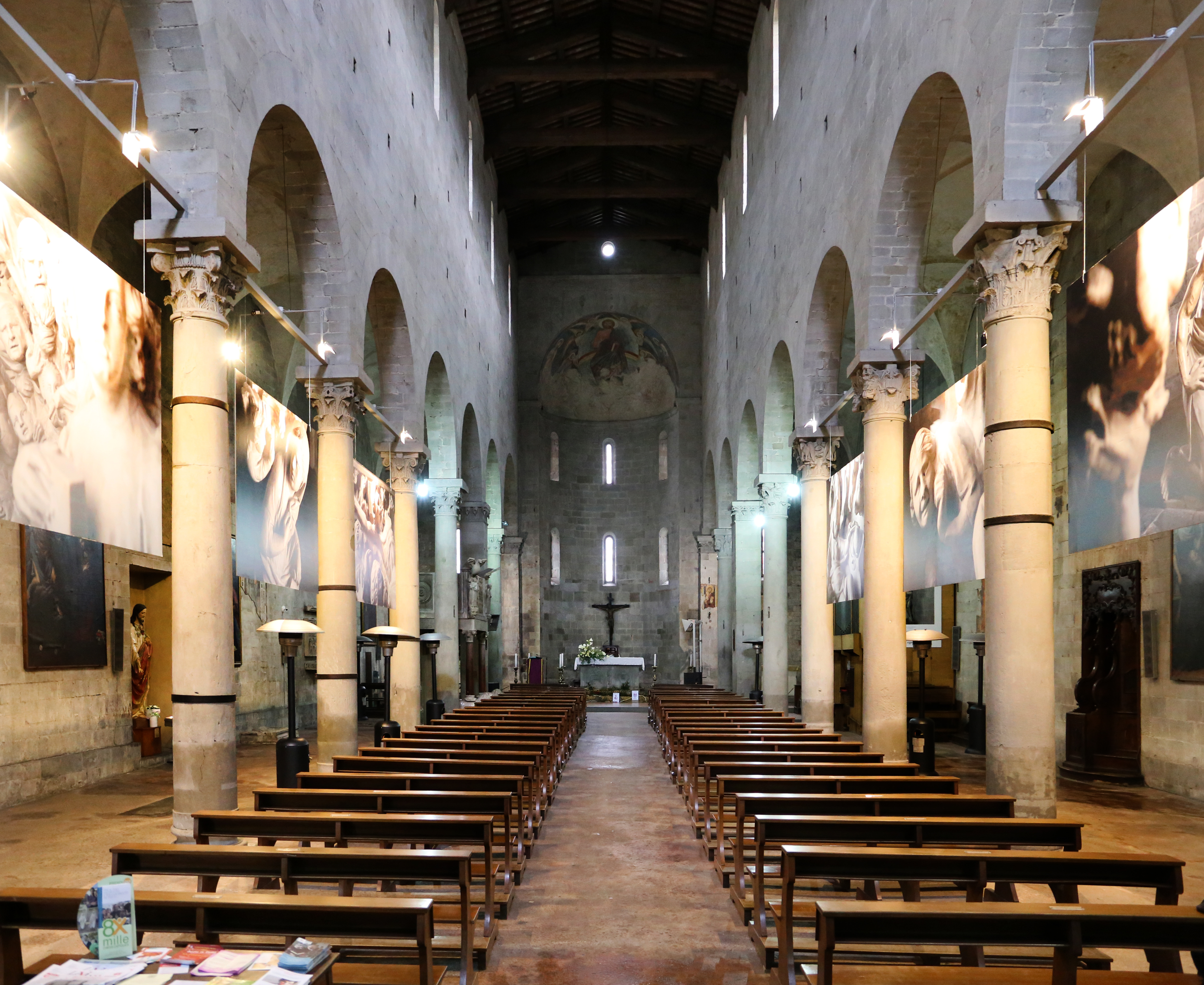 San Bartolomeo in Pantano (Pistoia) - Interior